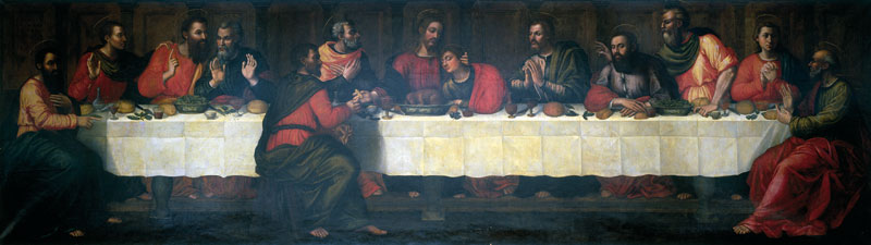 Plautilla Nelli (1524–1588), The Last Supper. Refectory of Santa Maria Novella, Florence.